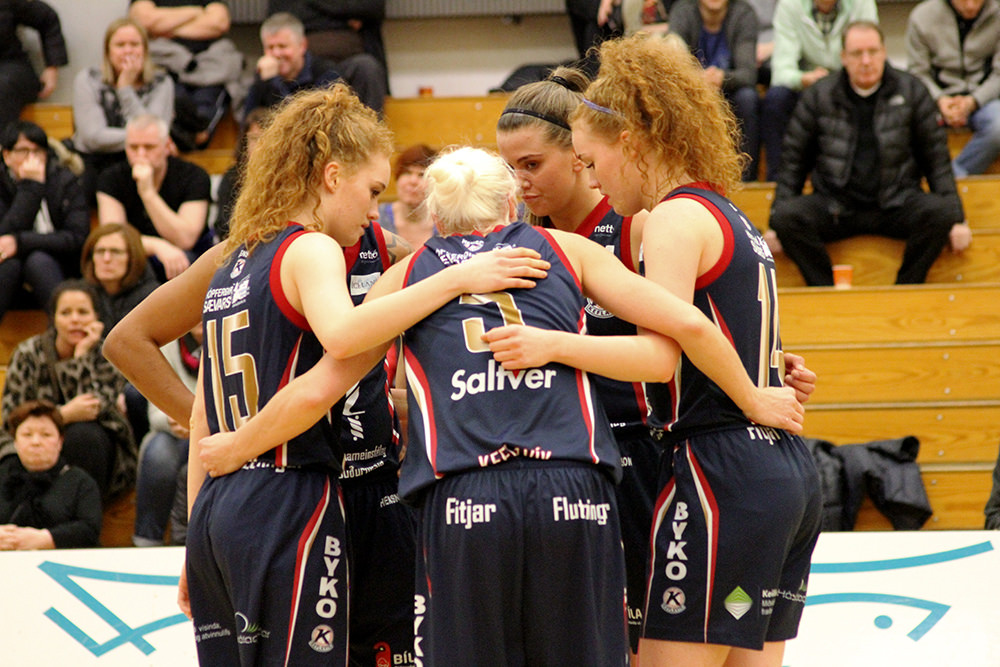 Players of Keflavík women's basketball team in a game against Grindavík during the 2014-2015 Úrvalsdeild kvenna season.